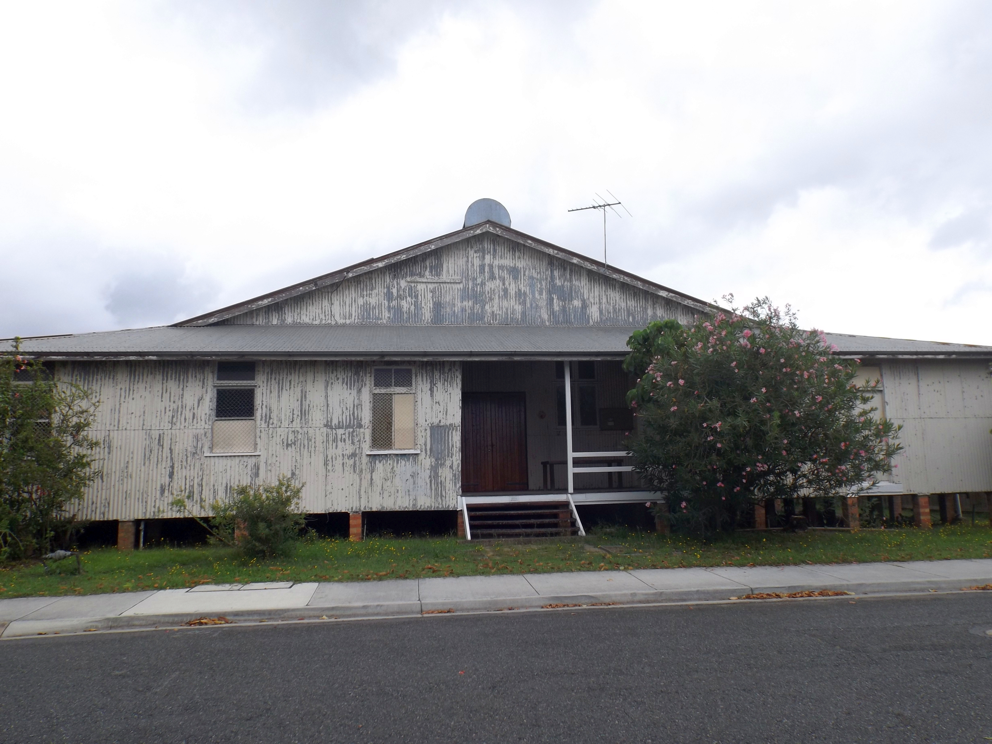 Photo of the front of the Annerley Army Reserve Depot in Annerley, Brisbane, Queensland, Australia.